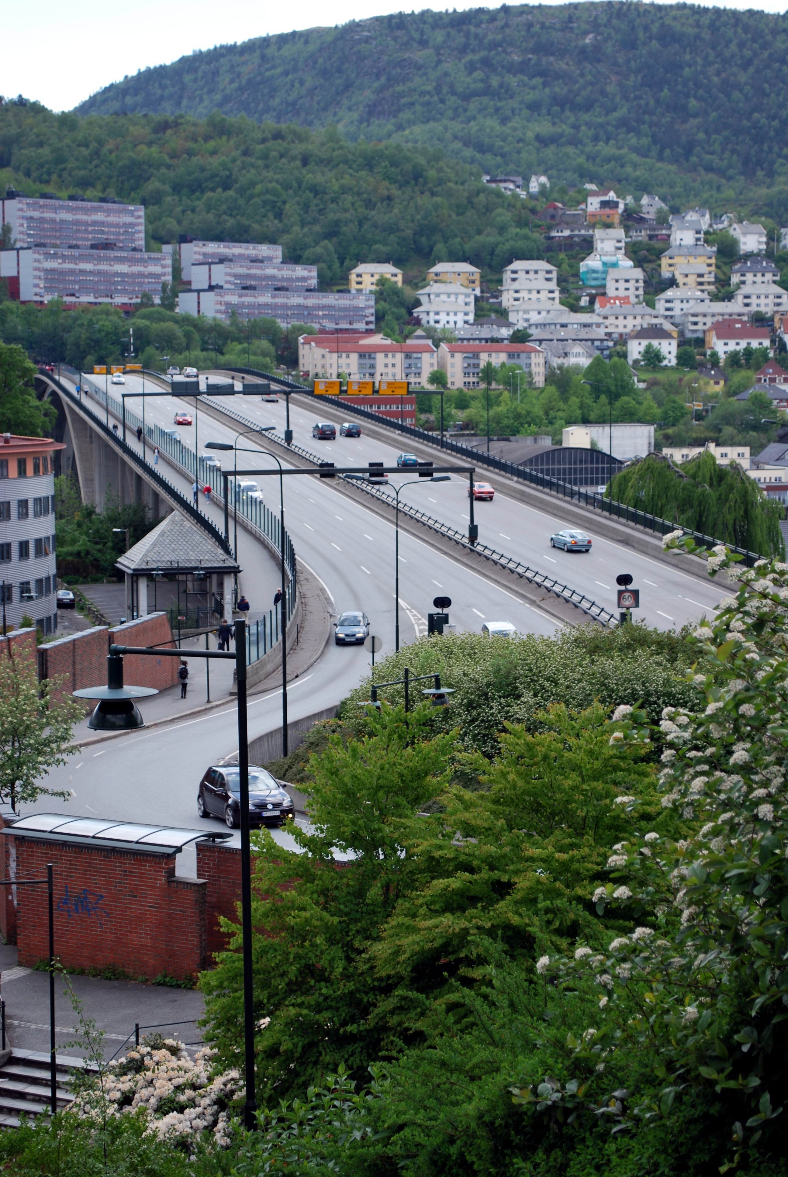 Puddefjordsbroen, Bergen, Norway.